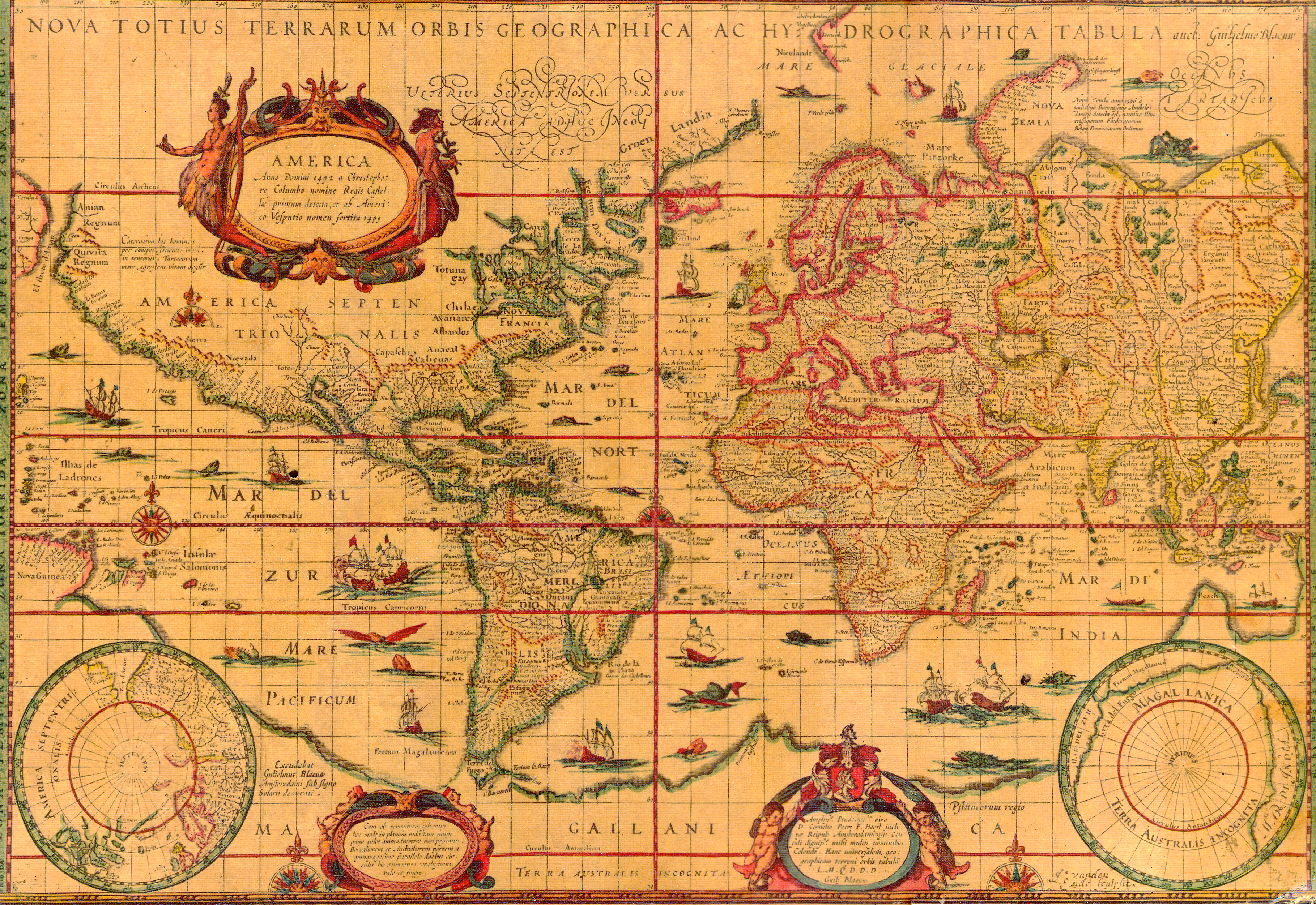 Old, historical map of the world.